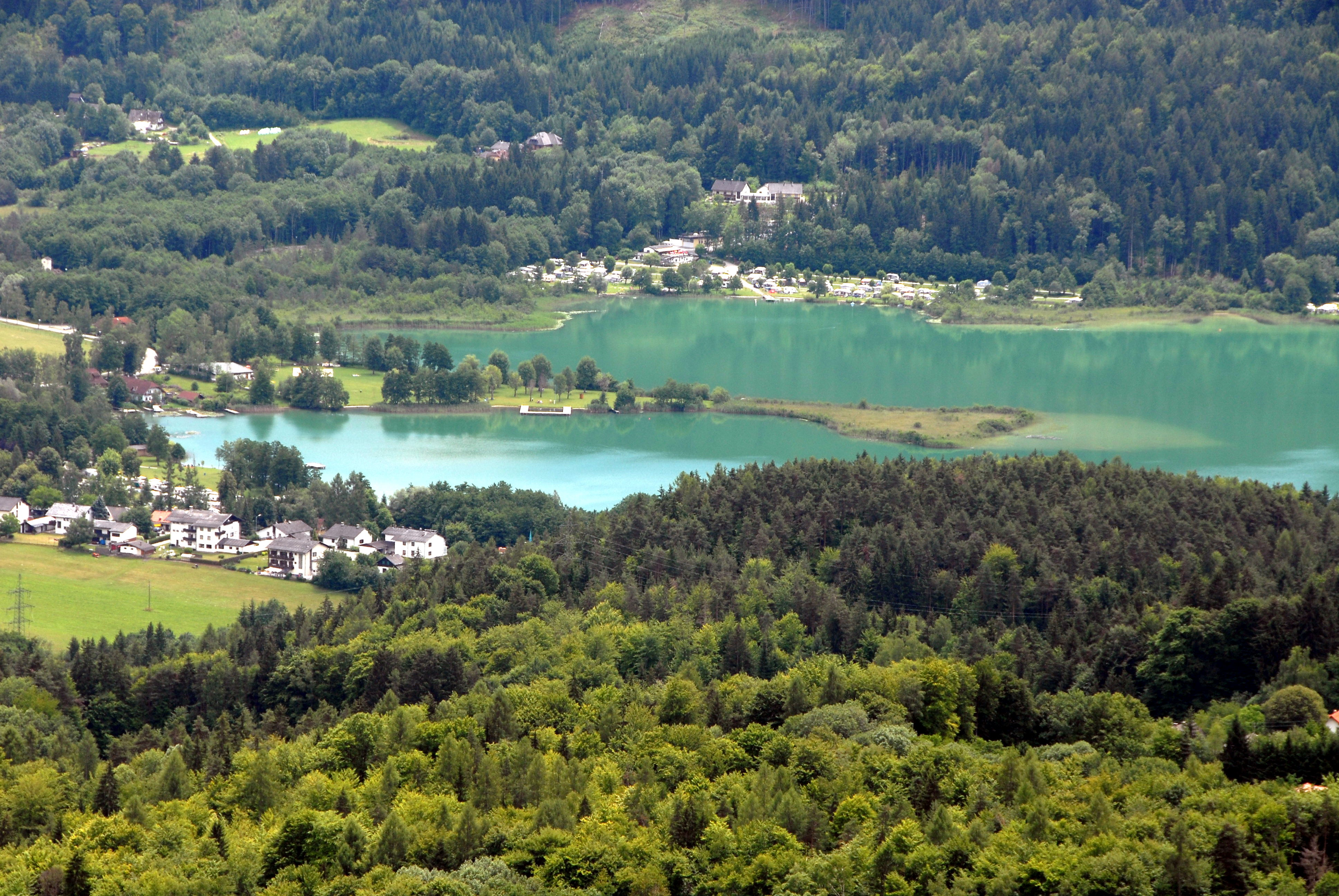 View from the Pyramid Ballon at lake Keutschach, municipality Keutschach am See, district Klagenfurt Land, Carinthia / Austria / EU